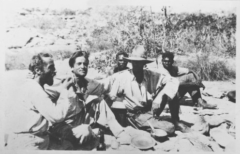 Adolph Klausmann, Captain Hans Bertram, Constable Gordon Marshall (from left to right), and two unidentified Aboriginal men sitting on the ground after rescue, Western Australia, 1932 "Klaussman having his first meal after Constable Marshall's arrival"--Typewritten label affixed to verso of mount.